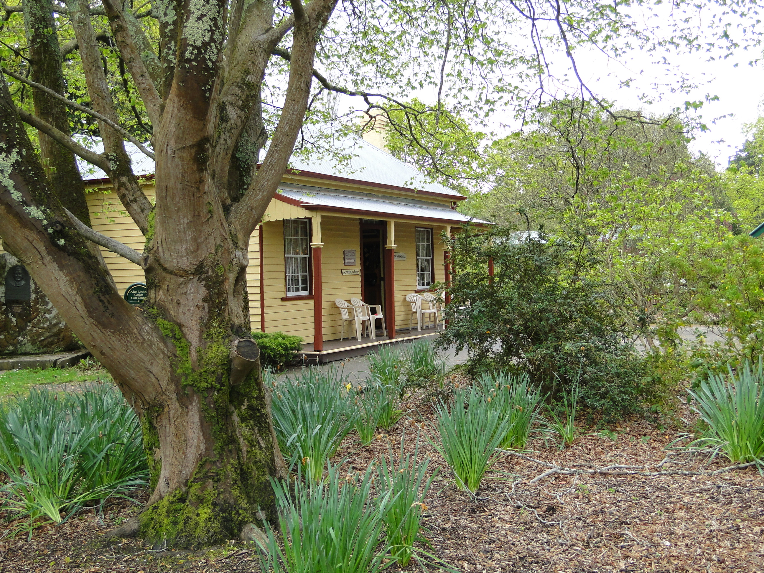 A cottage that used to be the home of poet Adam Lindsay Gordon. It is now located in the Ballarat Botanical Gardens, Victoria, Australia, where it is used as a craft shop.